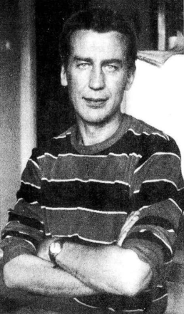 Danish author Hans-Jørgen Nielsen in December 1980